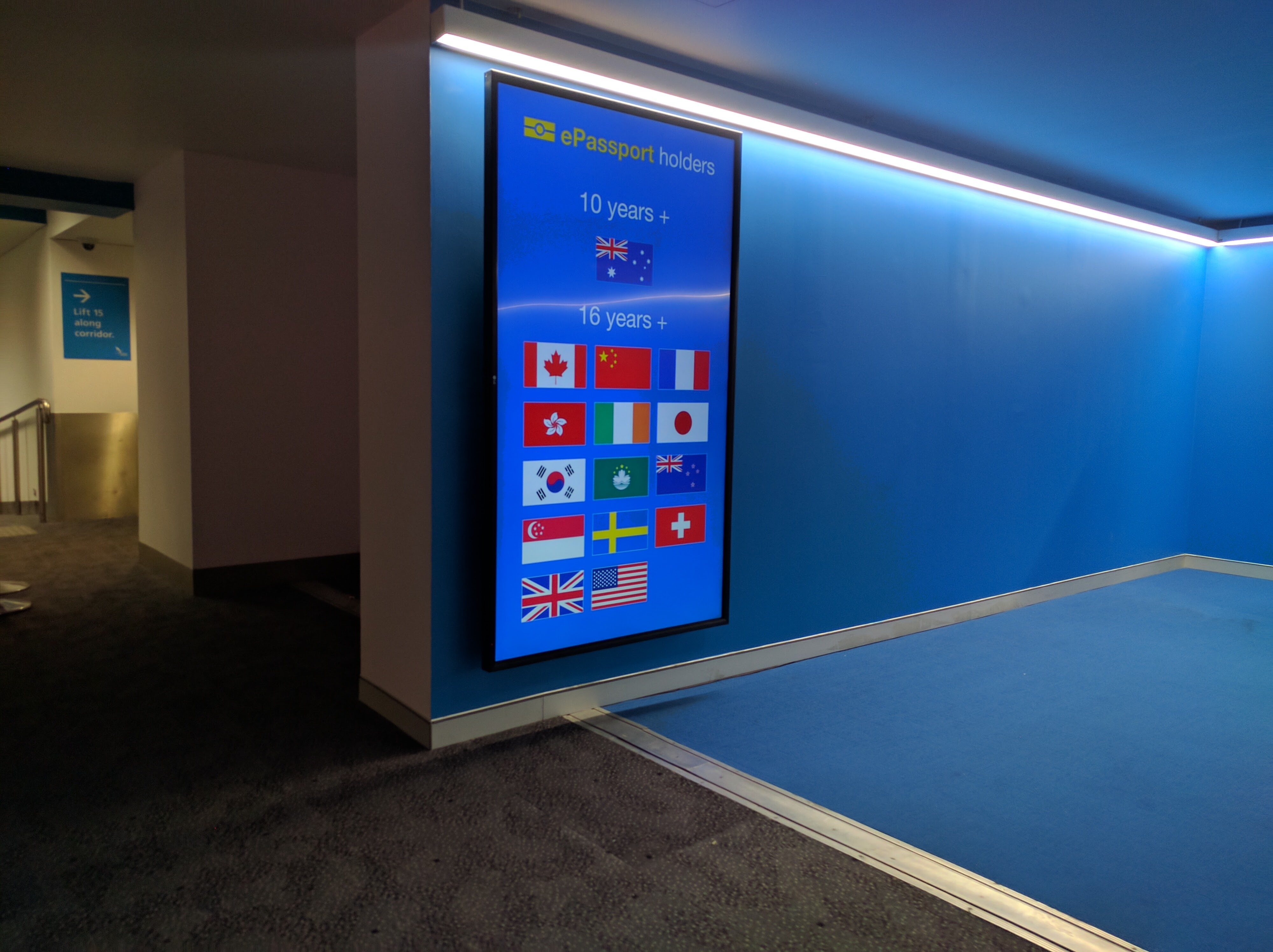 Smartgate Arrivals Eligibility Screen at Sydney Airport